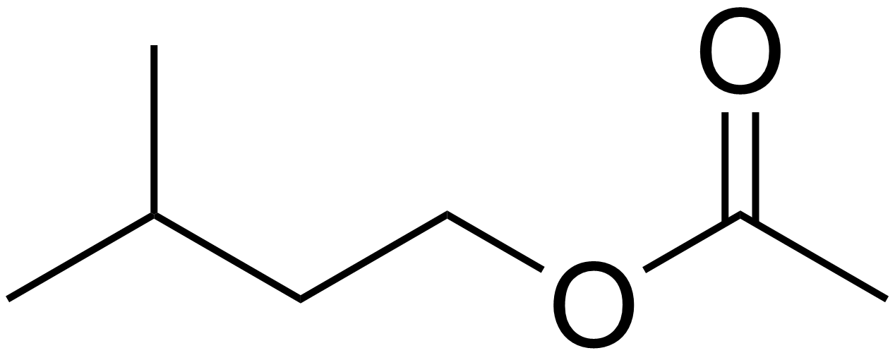 chemical structure of isoamyl acetate